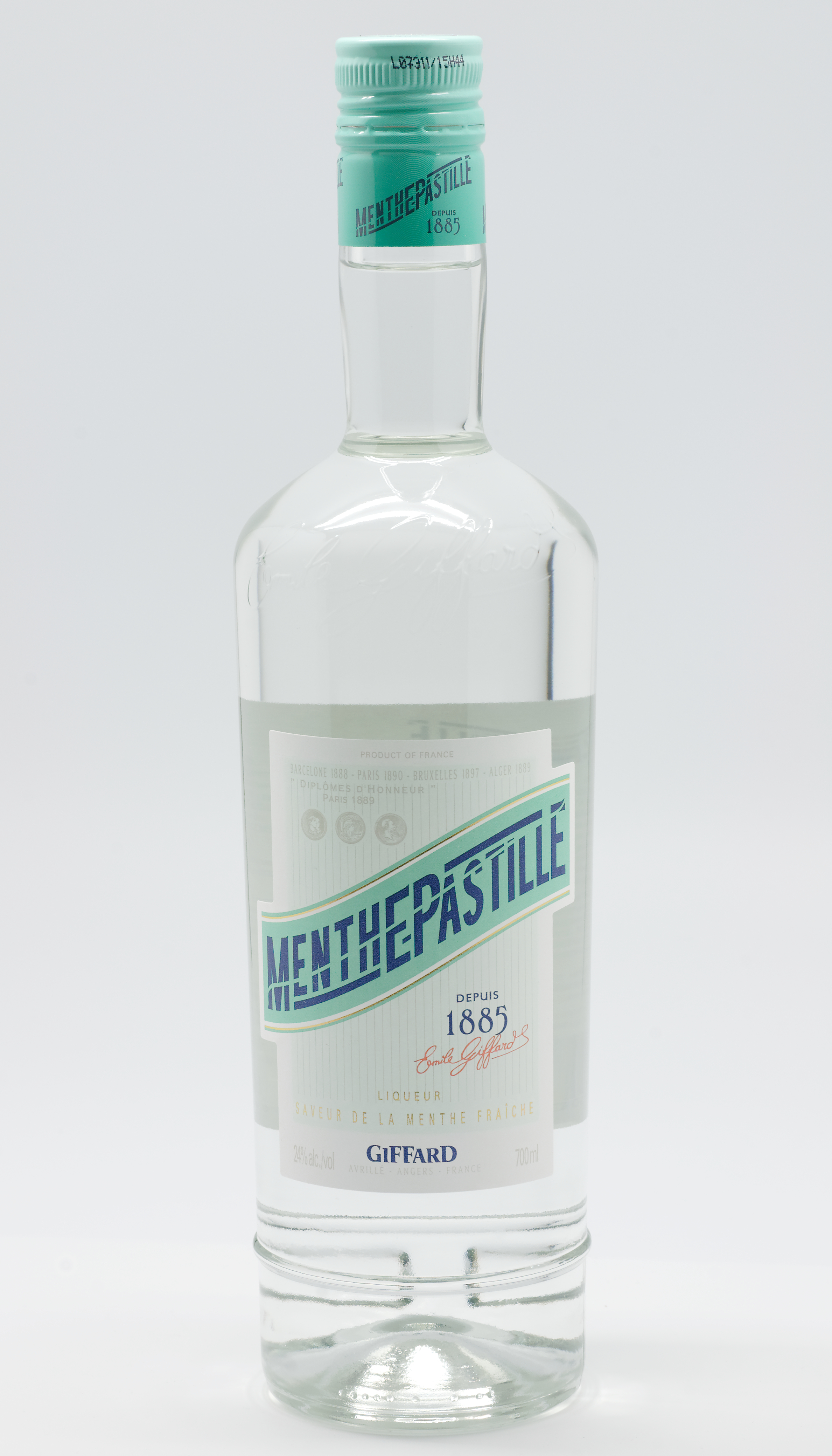 A bottle of Menthe Pastille.